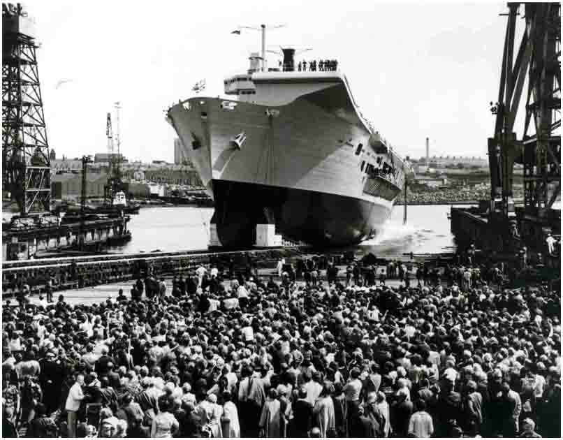 HMS Ark Royal was the former flagship of the Royal Navy. One of three Invincible class aircraft carriers she was affectionately known as The Mighty Ark. Her keel was laid by Swan Hunter at Wallsend on 7th December 1978 and she was launched on 20th June 1981 and completed in 1985. Major deployments included the Bosnian war (1993) and the invasion of Iraq (2003). More recently, she assisted in the repatriation of air travellers stranded by the 2010 volcanic eruption. Most photographs and images in this set are taken from the Swan Hunter Collection held by Tyne and Wear Archives Service. Ref: TWAS:ds-swh-4-ph-5-109-31 (Copyright) We're happy for you to share this digital image within the spirit of The Commons. Please cite 'Tyne & Wear Archives & Museums' when reusing. Certain restrictions on high quality reproductions and commercial use of the original physical version apply though; if you're unsure please . To purchase a hi-res copy please quoting the title and reference number. Note: Despite the above notes and image title HMS Ark Royal was launched on 2 June 1981.